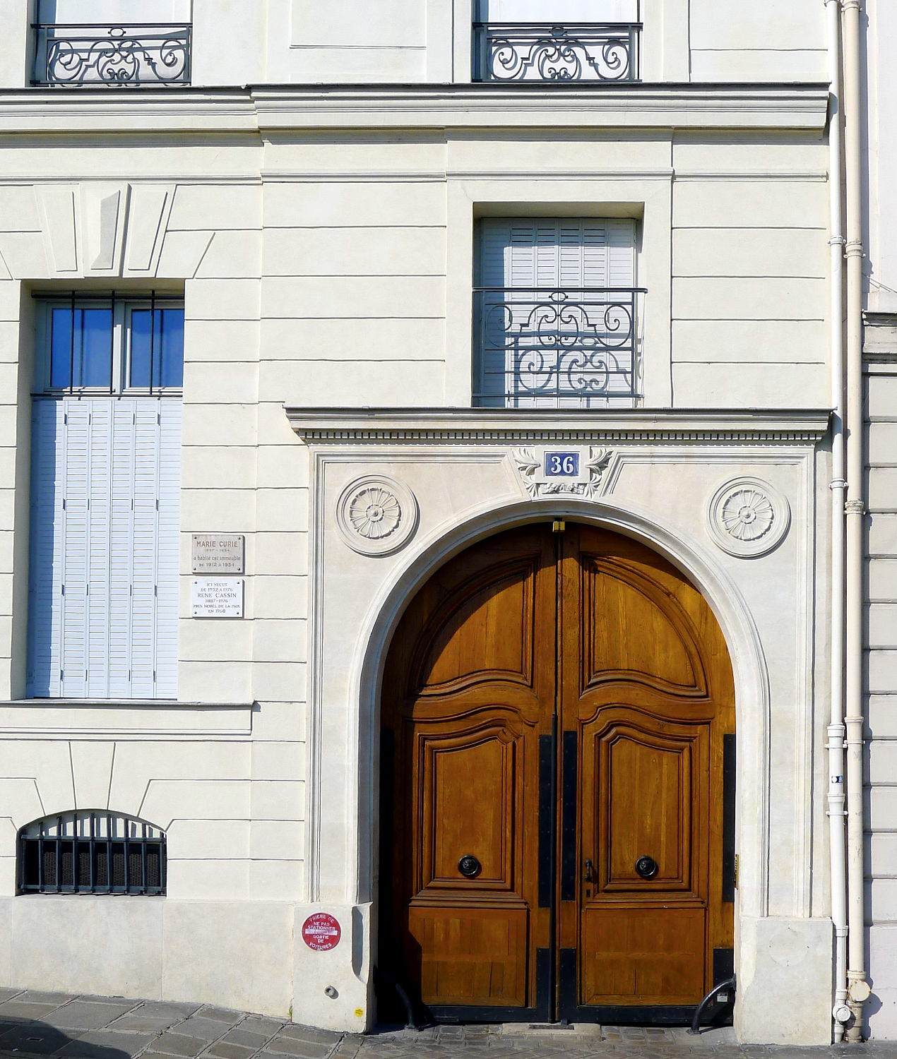 Quai de Béthune (n°36) - Paris